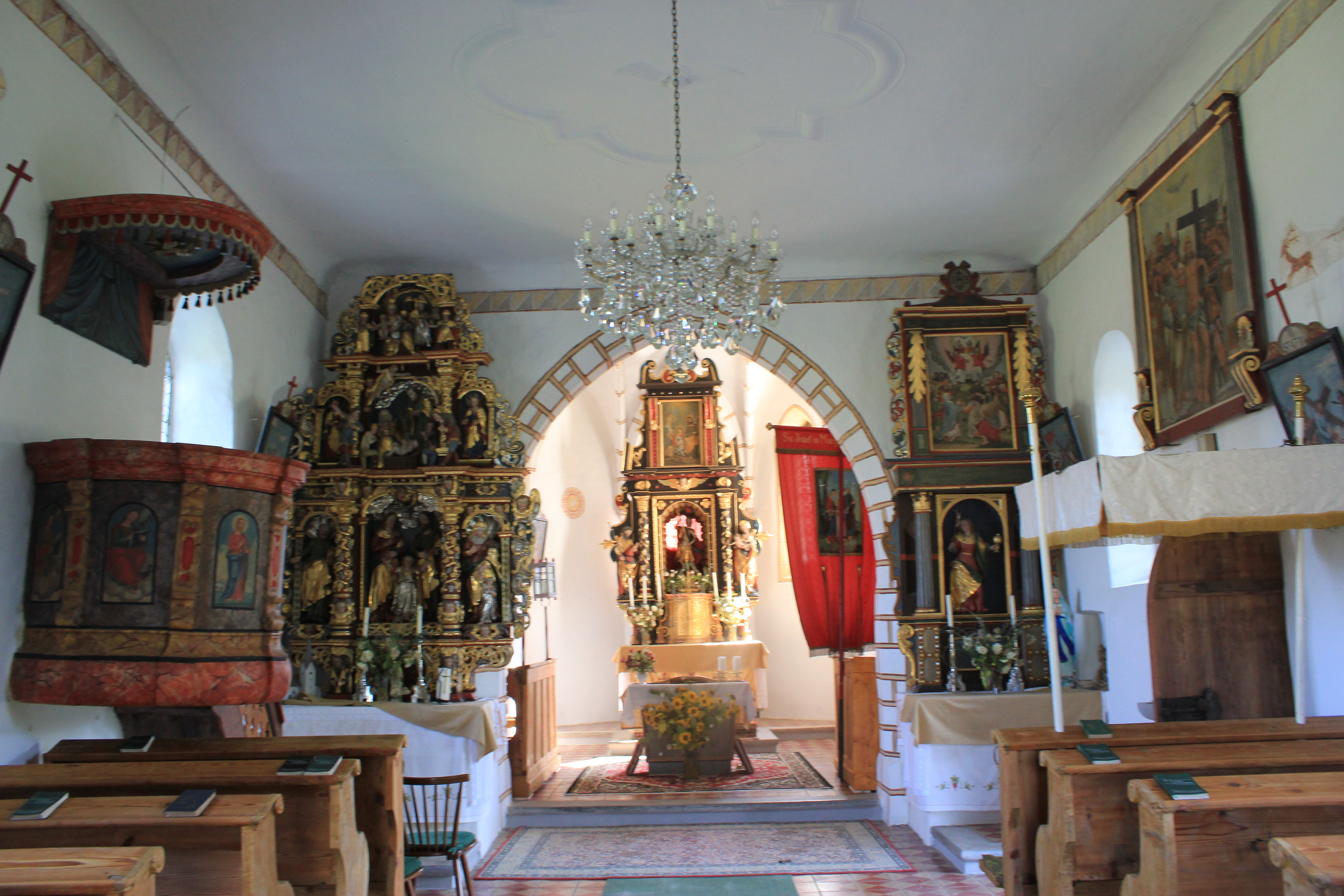 Church of St Georgen in the community of Bleiburg - inside